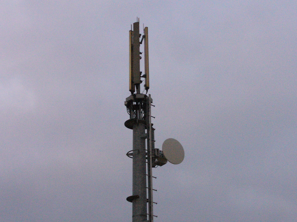 PhoneMast FSSE-INFO